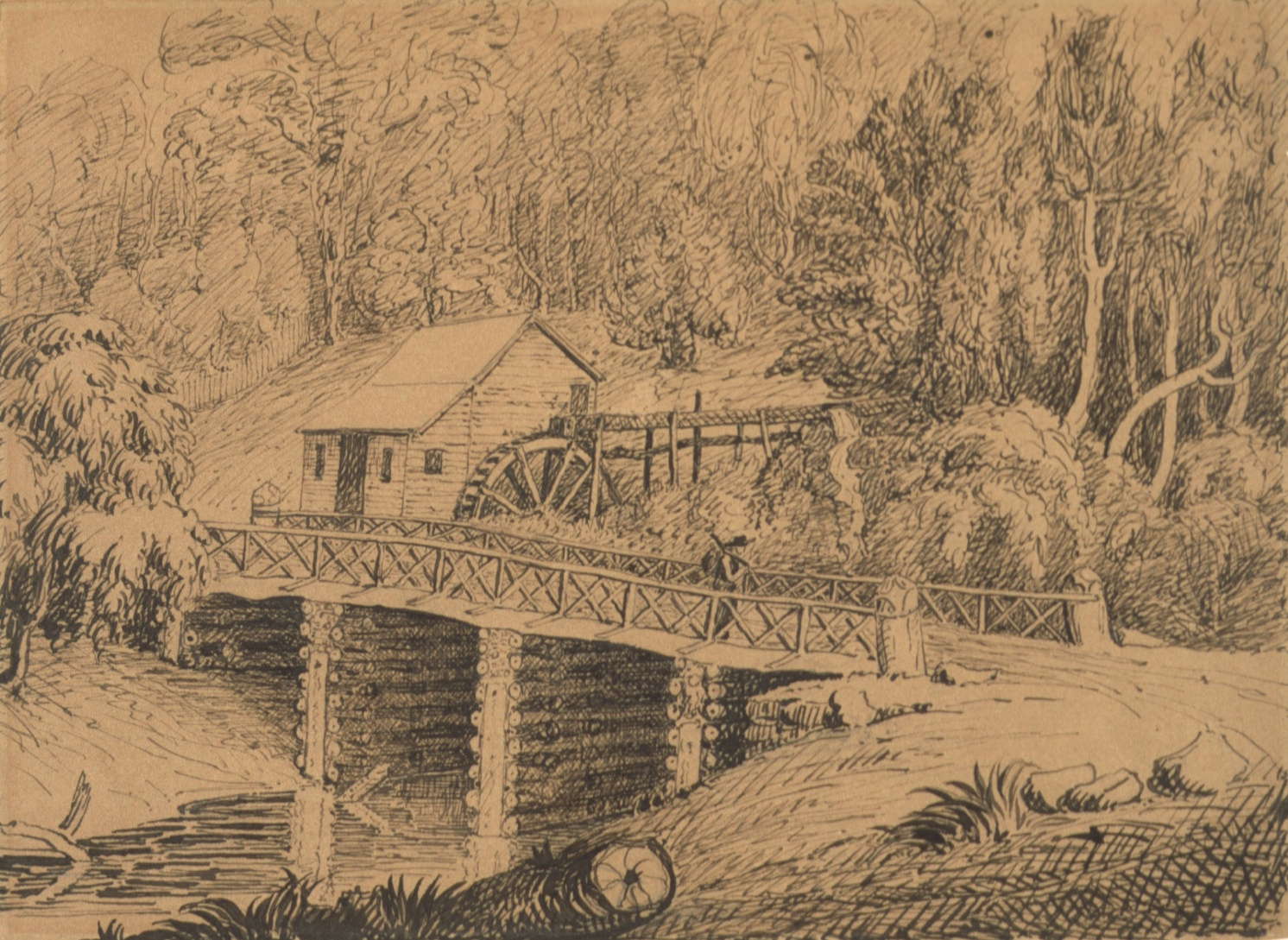 Log bridge and the original mill at Carrick, Tasmania (bridge crosses the Liffey River) in a pen-and-ink drawing by Elizabeth Hudspeth from c1850. The mill pictured was built by William Bryan in 1825/26